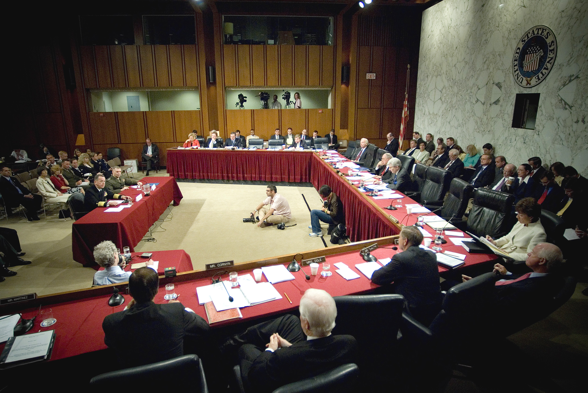 Chief of Naval Operations, Adm. Mike Mullen and Commander, U.S. Strategic Command, Gen. James E. Cartwright, testify during their confirmation hearing in front of the Senate Armed Services Committee for appointment to Chairman and Vice-Chairman of the Joint Chiefs of Staff at Hart Senate Office Building, July 31, 2007.